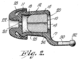 First preformed cap